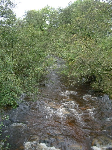 Hermitage Water. upstream from bridge to Hermitage Castle. Lots of water for a couple of weeks before, so this is close to spate.